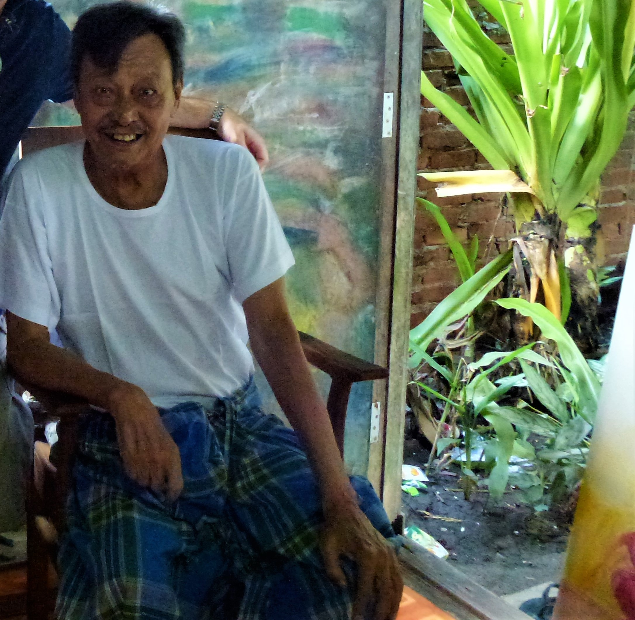 Portrait of Khin Maung Yin at his shanty town house and workshop, in 2012.